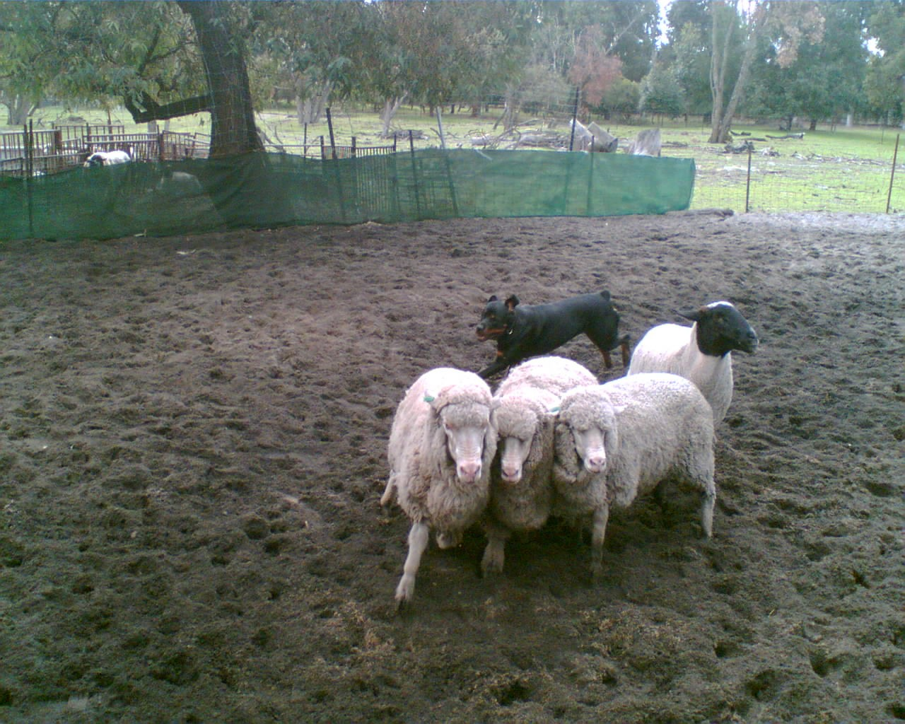 Rottweiler "Primarch Velvet Delite" herding sheep